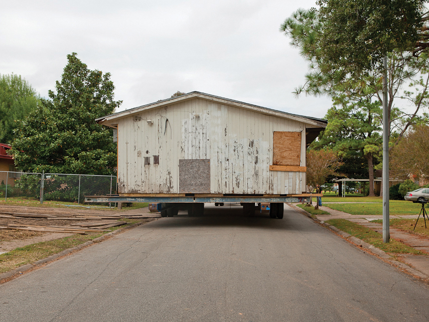 prototype 180 is an artwork by American conceptual artist Mary Ellen Carroll who lives and works in New York City and Houston. prototype 180 is the centerpiece of Carroll's Innovation Territories, an initiative co-sponsored by the Rice University Building Institute. The artwork "will make architecture performative." It is literally a ground-shifting exercise, because it structurally involves the rotation, back to front, of a single-family, ranch-style house and its surrounding land in the development of Sharpstown, a suburb of Houston, Texas. Following the rotation, the structure will be retrofitted and rehabilitated to become an occupied structure that will be become an institute for the study of considered urbanism. In planning for 10 years, prototype 180 is described as reconsideration of monumentality that combines live performance, sculpture, architecture and technology.